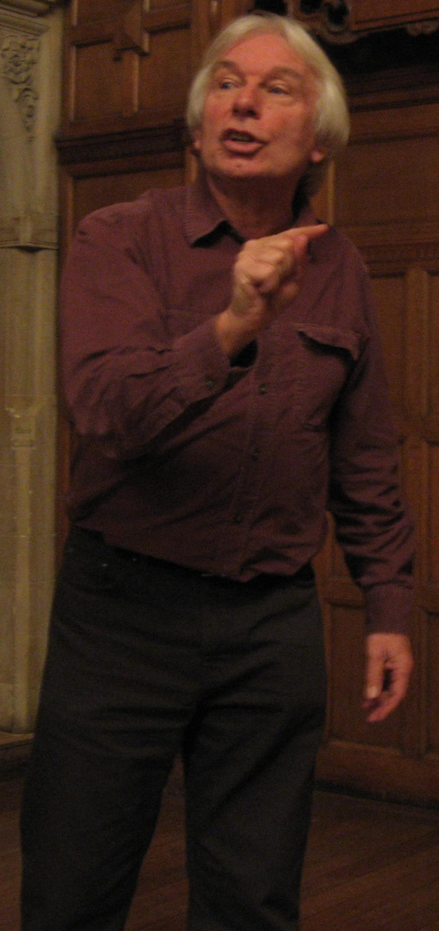 Colin Hines explains the Green New Deal with passion, Oxford Town Hall, 2009-01-29